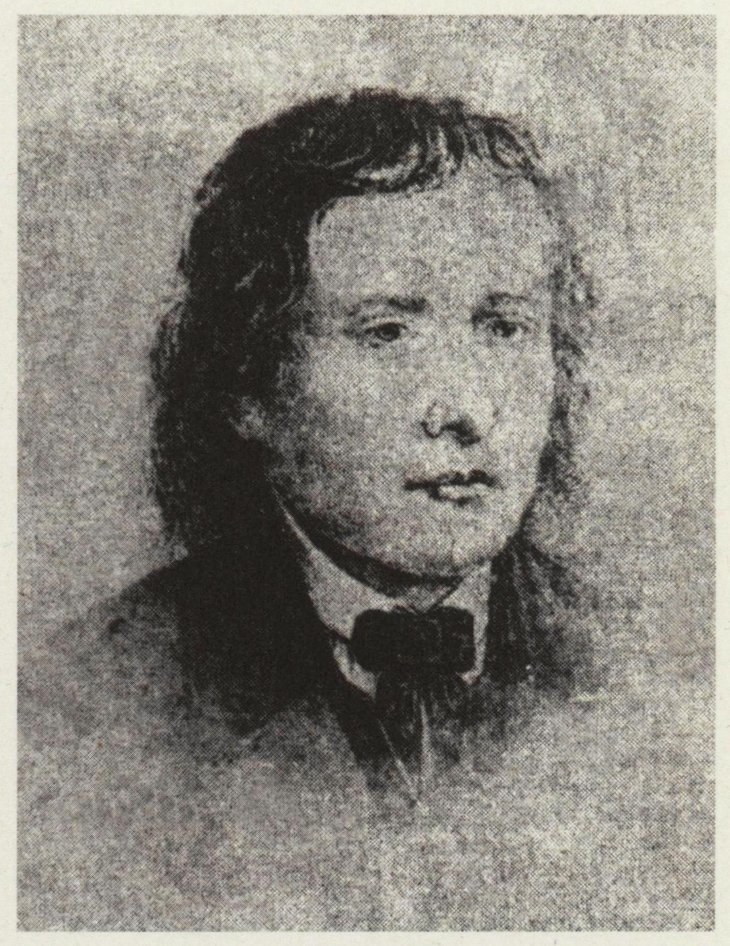 A lithograph of France Prešeren, published in the 1866 edition of Prešeren's Poems (the so-called Wagner's Lithograph)